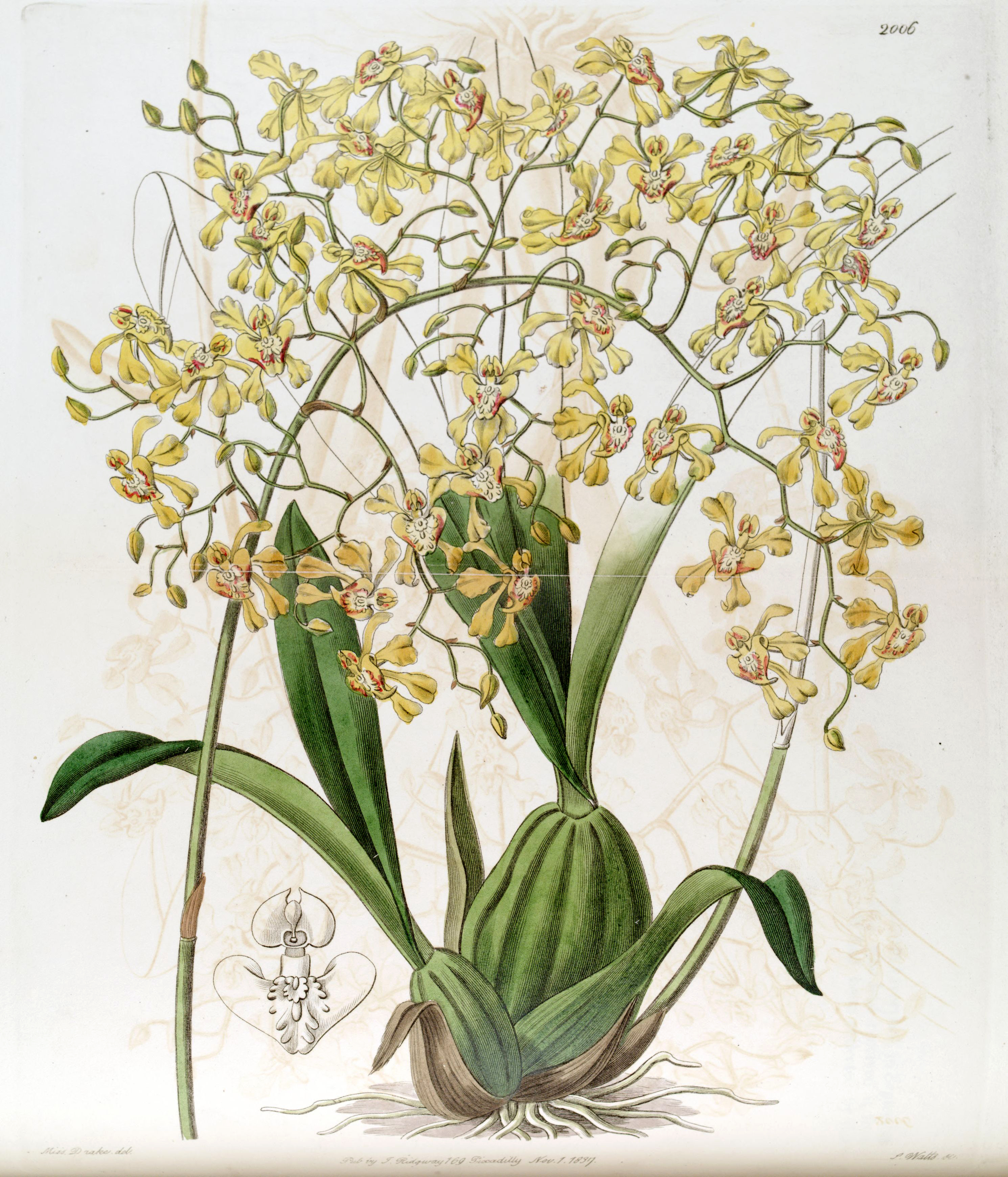 Oncidium deltoideum (spelled as Cynorchis fastigiata